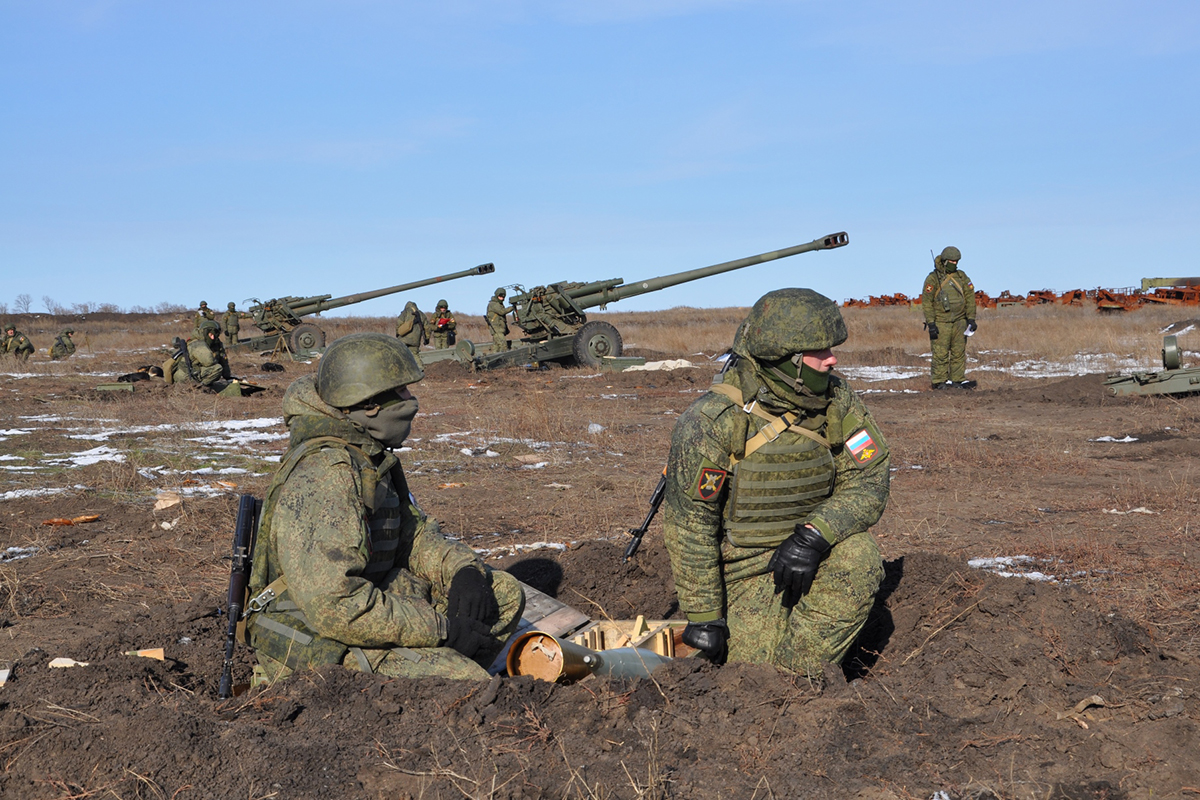 Msta-B of the 150th Motorized Rifle Division.